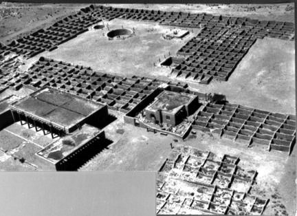 Aerial view of Kuaua ruins, Coronado State Monument, Bernalillo, New Mexico